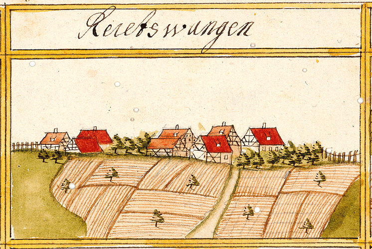 View of Raidwangen, Nürtingen, from the forest register books created by Andreas Kieser